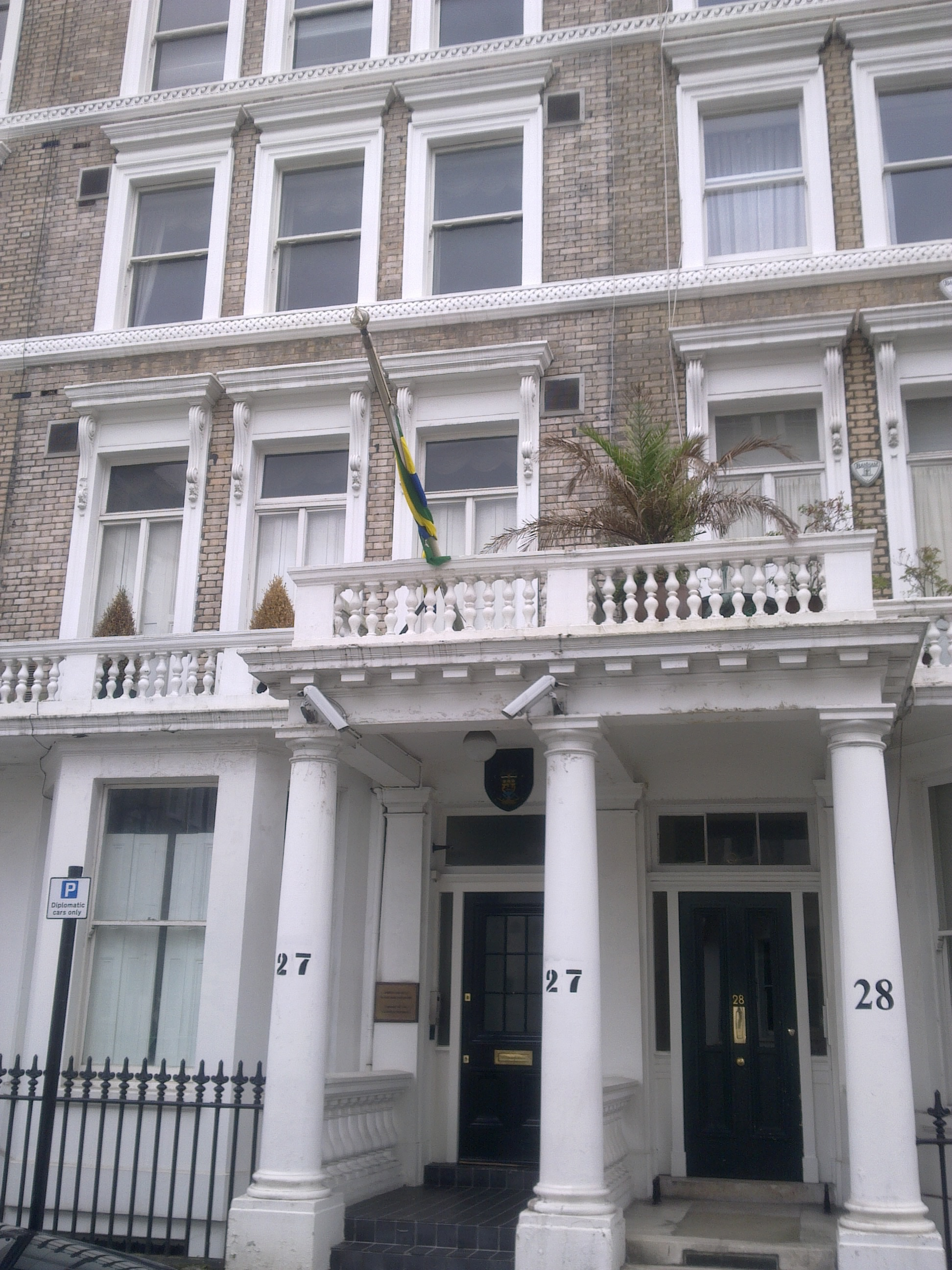 Embassy of Gabon in London 1